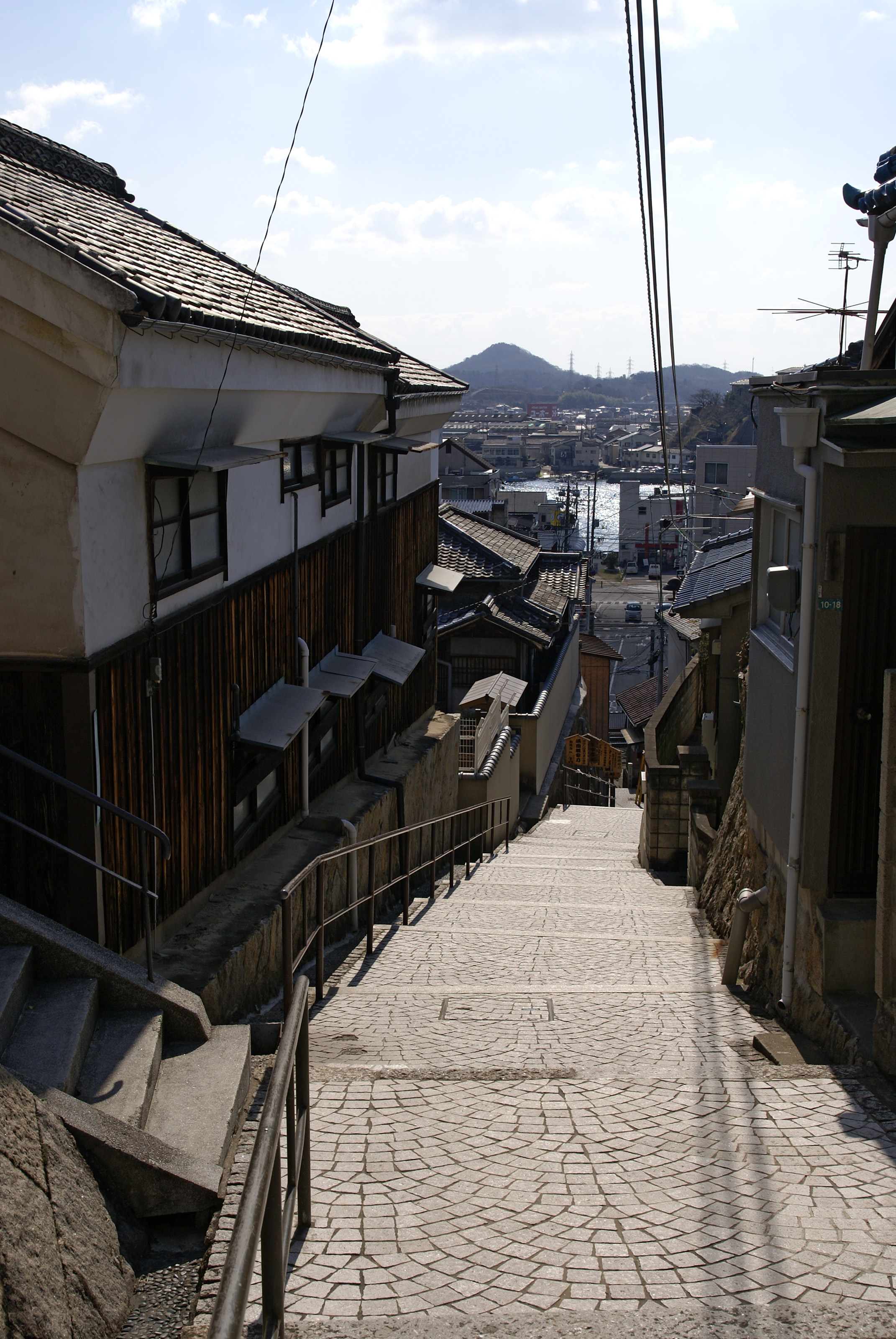 Senkoji-shinmichi in Onomichi, Hiroshima prefecture, Japan